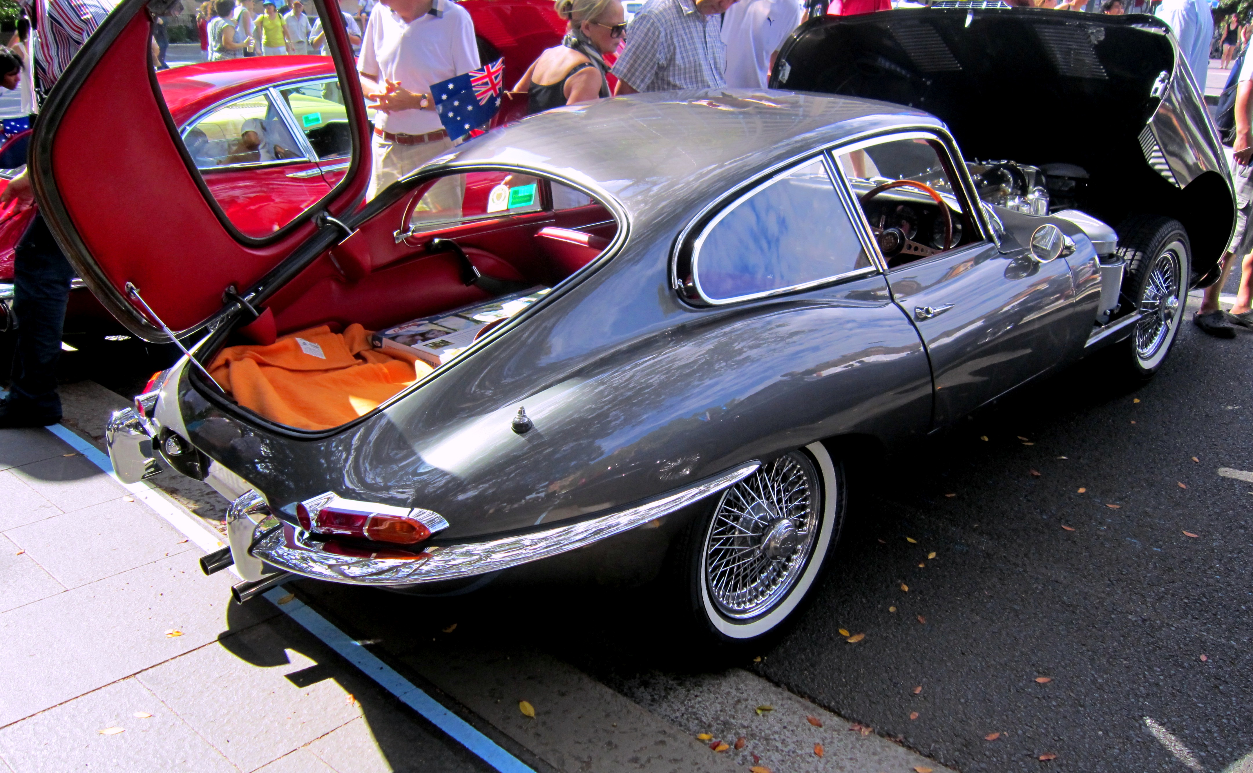 While your here, you can also check out the video footage from NRMA Motorfest 2011, featuring just some of the various models on display, but perhaps also providing a reason to come along to the 2012 NRMA Motorfest, if you werent able to make 2011 NRMA Motorfest. You can check out the footage here at; NRMA Drivers Seat